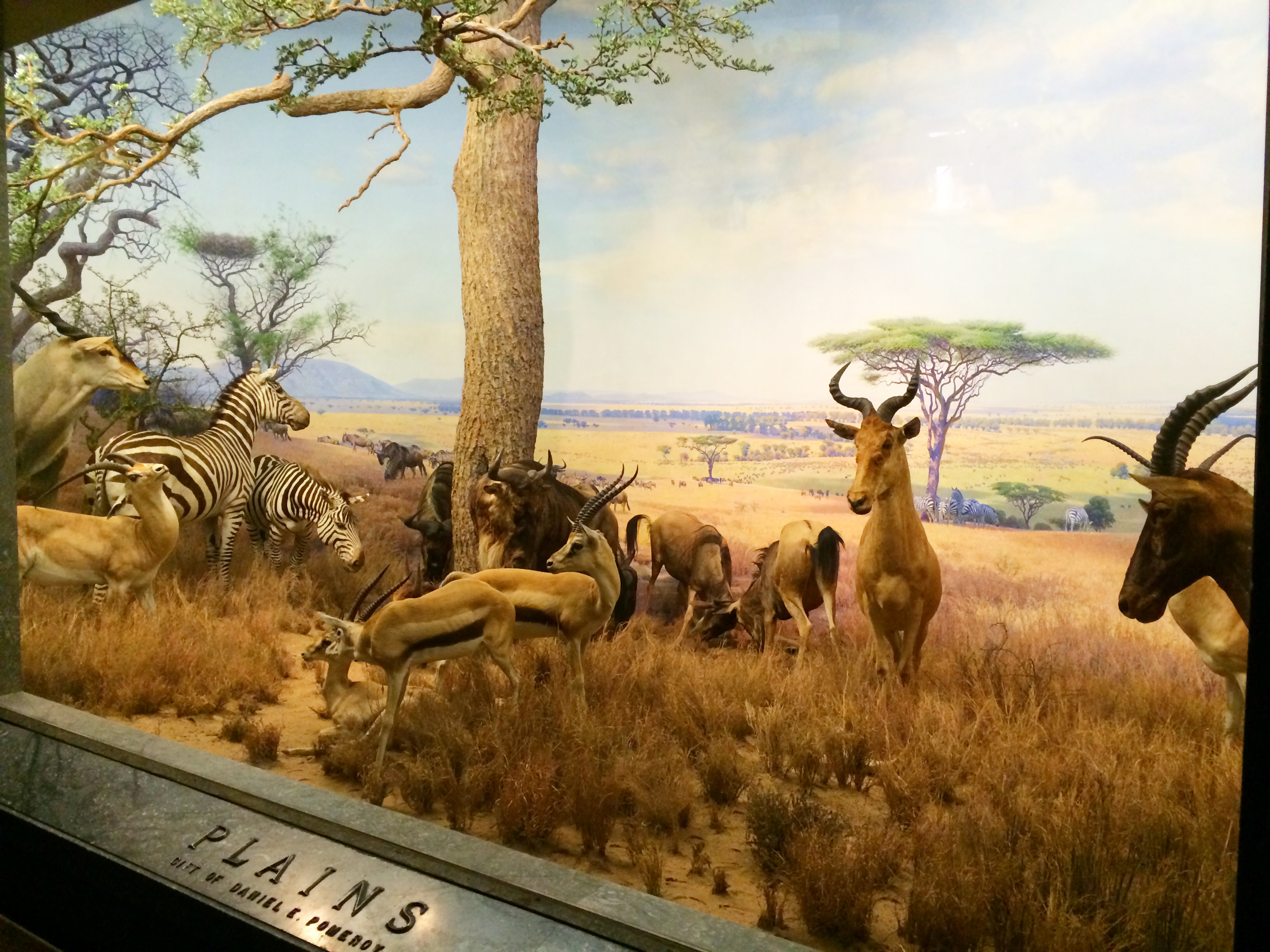 "Plains" diorama Akeley Hall of African Mammals, American Museum of Natural History